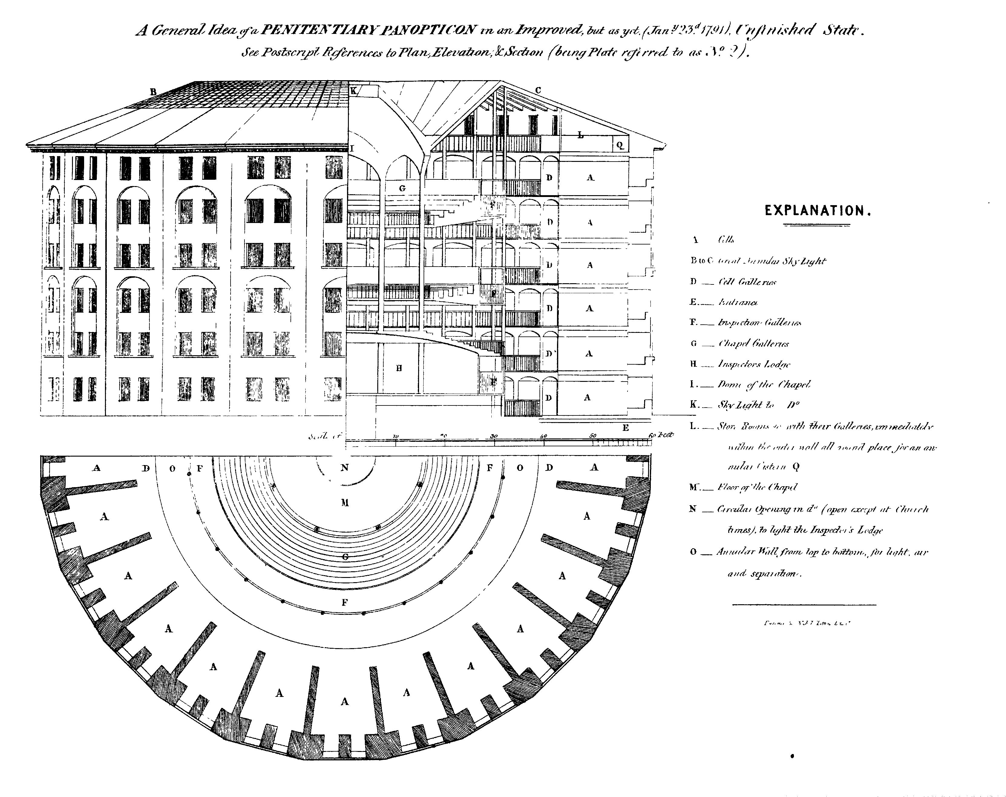 Plan of the Panopticon